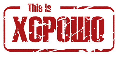 This Is Хорошо logo